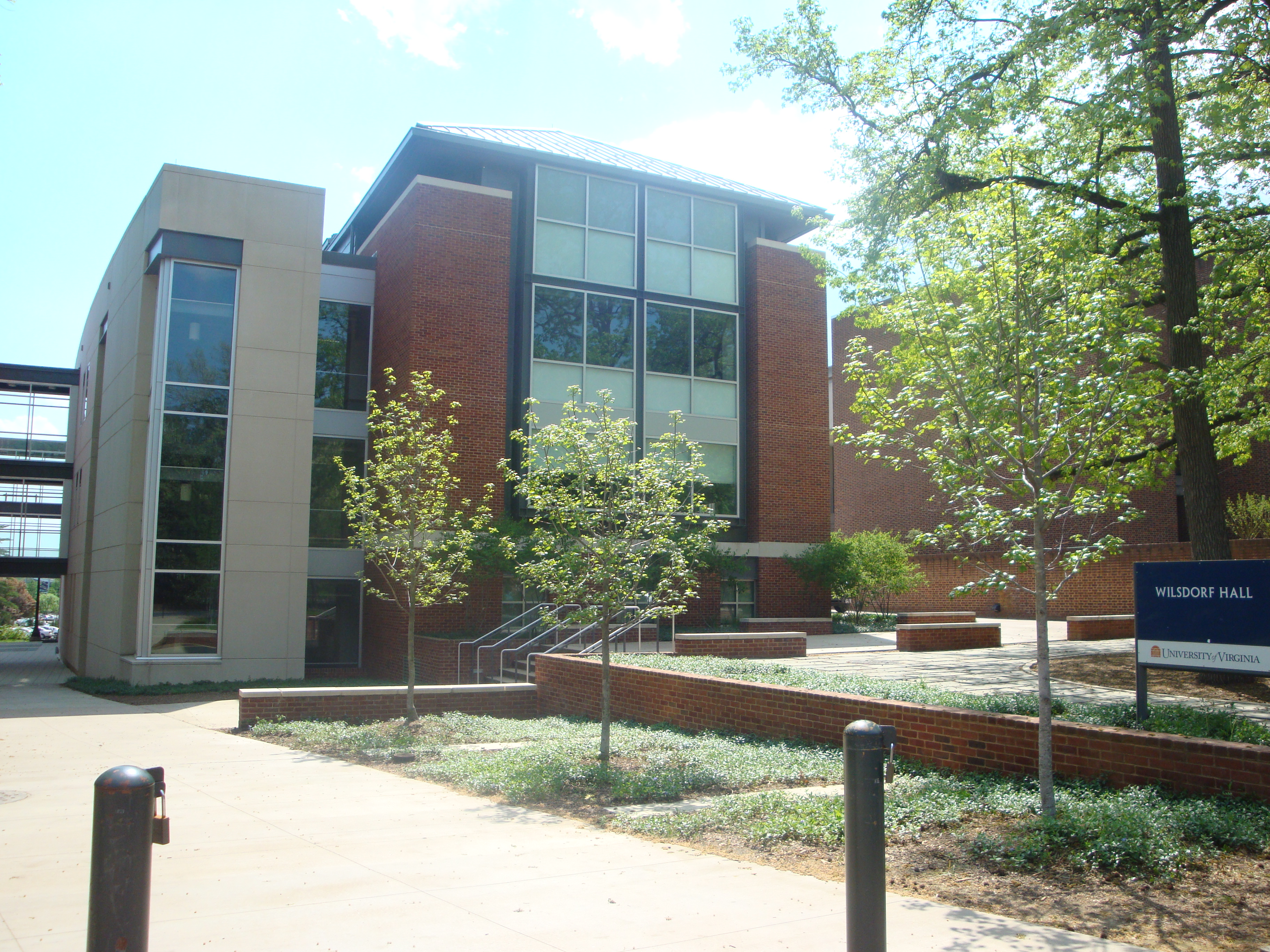 Wilsdorf Hall, University of Virginia, Charlottesville, VA